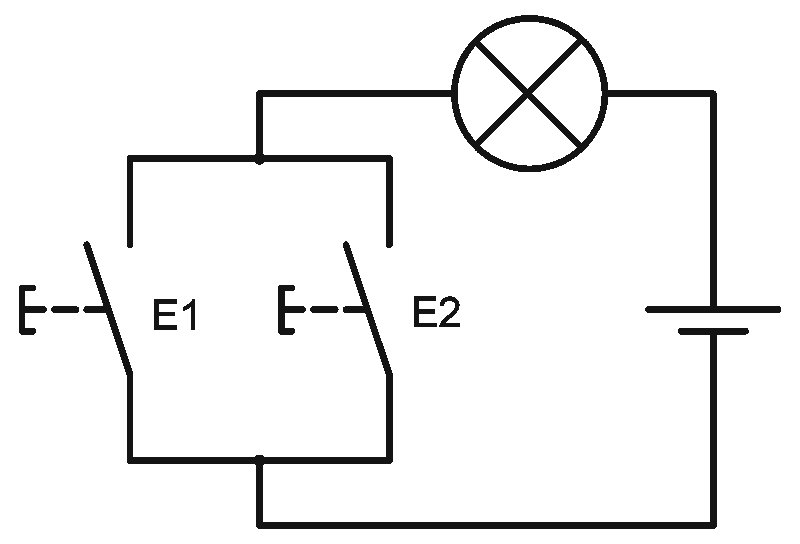 An Or-Gatter created with simple Switches